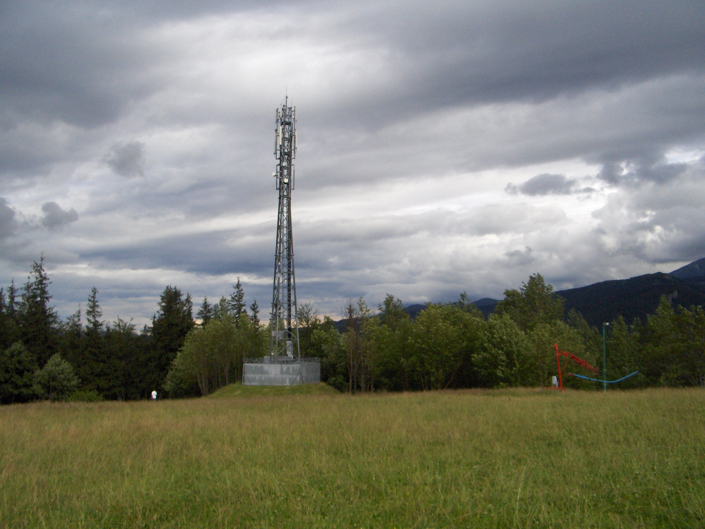 The transmitting antenna on top of Antałówka in Zakopane